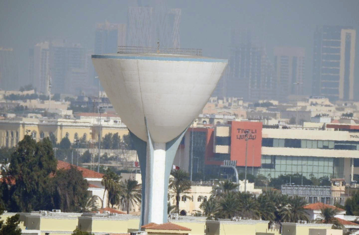 View of Tivoli Group in the Lebday district of Al Rayyan, Qatar. Parts of Luaib can also seen. Picture taken from the Aspire Zone in Baaya.